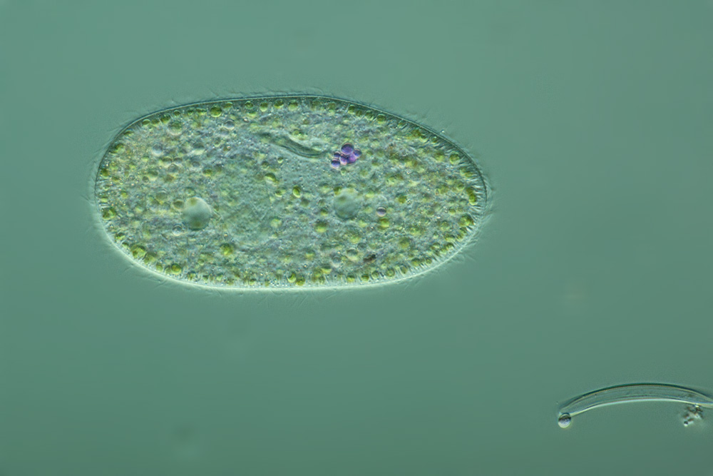 green Paramecium